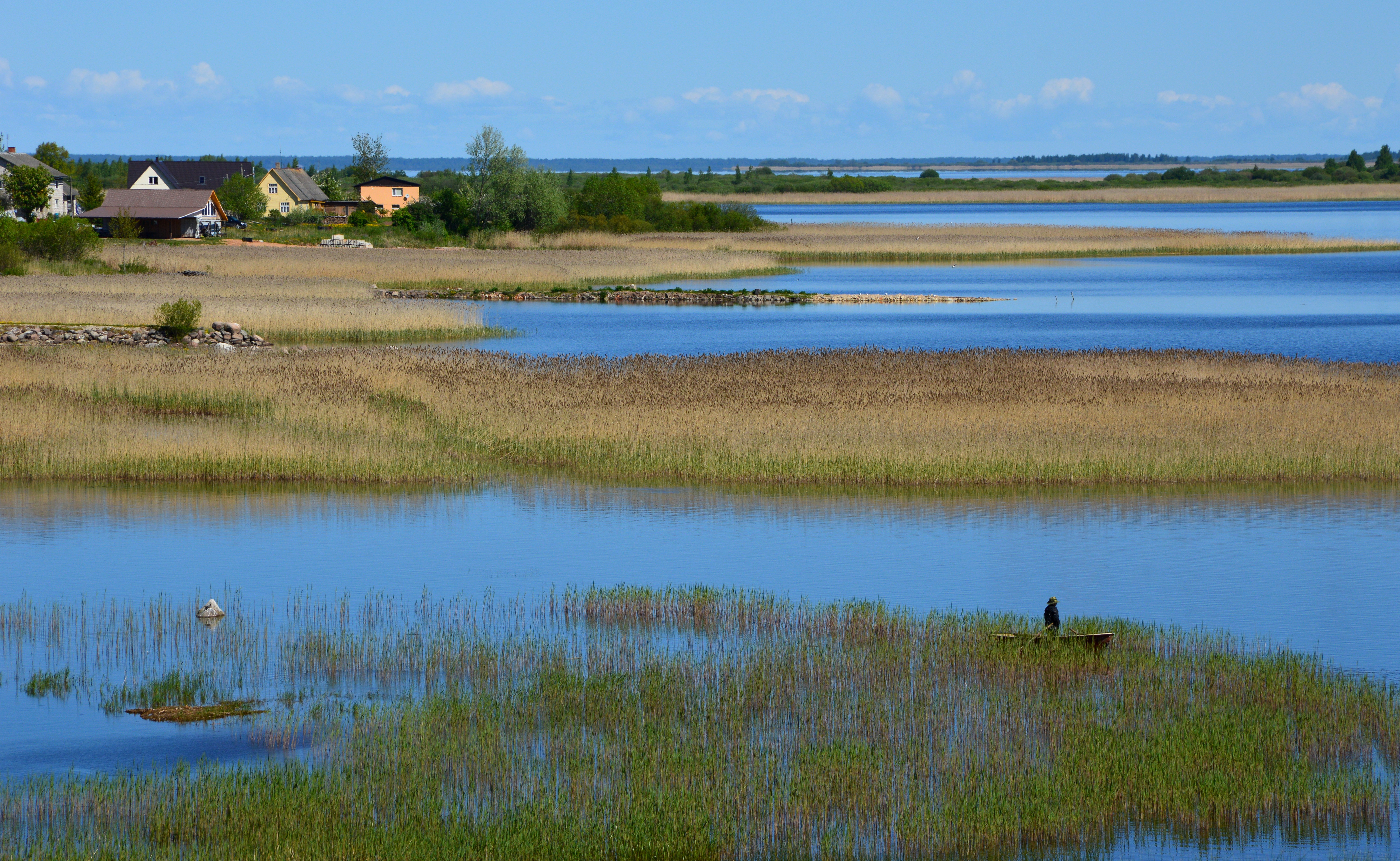 Lüübnitsa village in Mikitamäe Parish, Põlva County in southeastern Estonia.